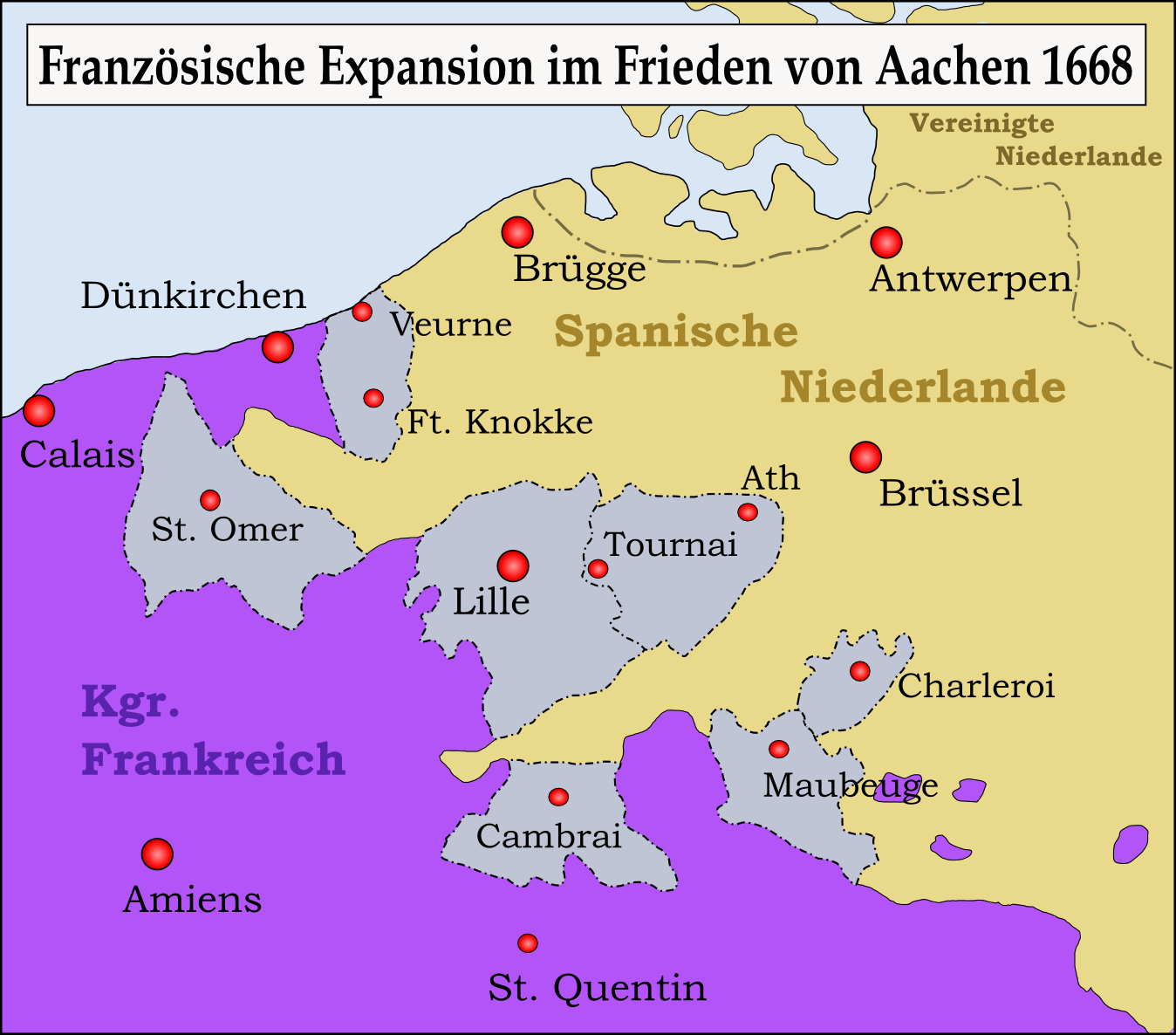 Map of the French annexions in the Spanish Nederlands due the Peace of Aix-la-Chapelle in 1668